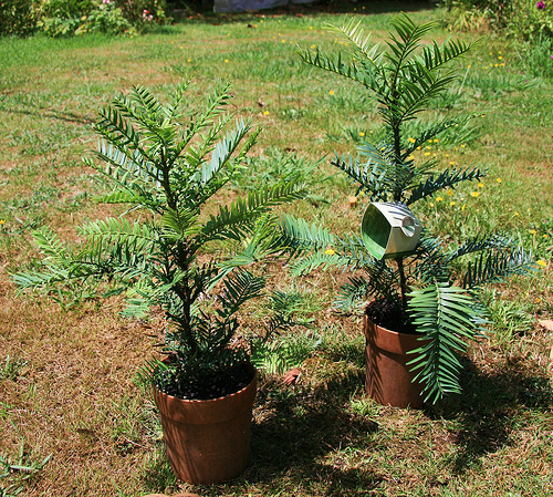 Wollemia pine The Wollemi Pine is one of the world's oldest and rarest plants dating back to the time of the dinosaurs. With less than 100 adult trees known to exist in the wild, the Wollemi pine is now the focus of extensive research to safeguard its survival. It was discovered just 10 years ago by a bushwalker in a national park only 200km from Sydney, Australia's biggest city." I now own two Wollemi Pines (which are specially grown for sale) that you can buy from a few select locations around the world. Check out the official Wollemi Pine website for details.